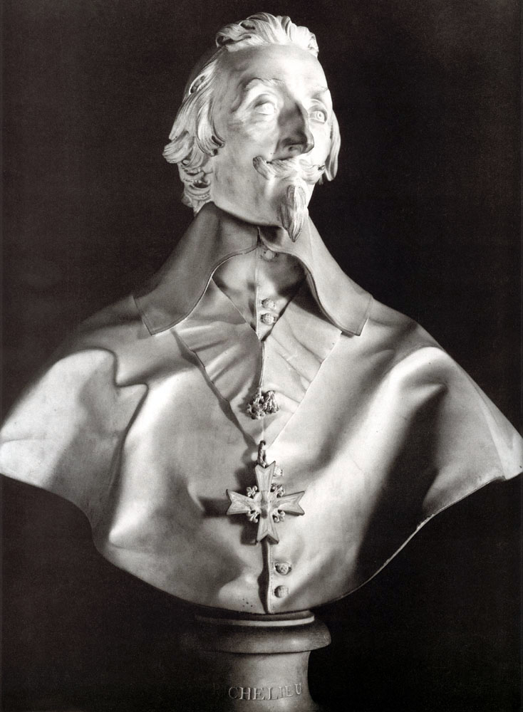 Bust of Cardinal Richelieu by Bernini